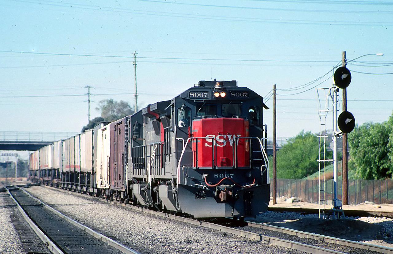 A short train through Colton Junction, Colton CA. January 1989. Scan from 35mm slide.